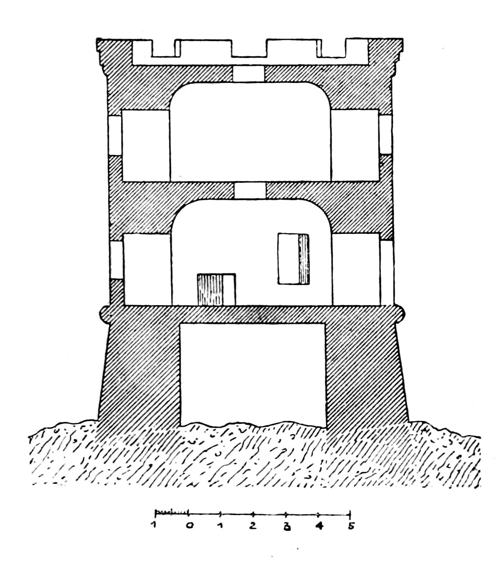 Section though the Tour de la Parata. This is a Genoese tower built in Corsica in around 1560. The drawing is taken from: Fréminville, Joseph de (1894). "Tours génoises du littoral de la Corse". Bulletin archéologique du Comité des travaux historiques et scientifiques (in French): 47–57. The article was also published separately: Fréminville, Joseph de (1894). Tours génoises du littoral de la Corse (in French). Paris. OCLC 494605587.